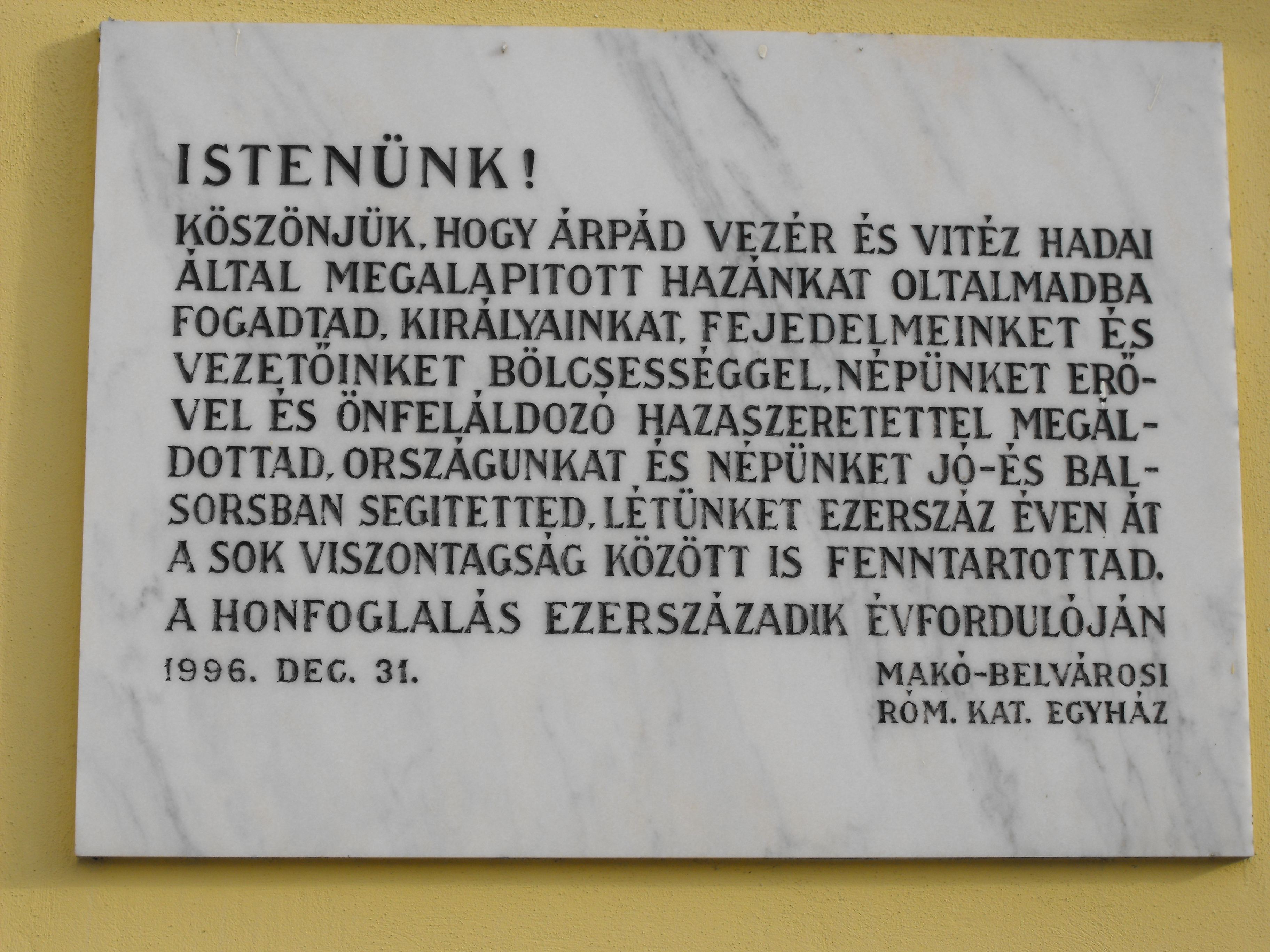 Memorial tablet in Makó, Hungary, commemorating to the Hungarian Conquest (the arrival of the Magyars into the Carpathian Basin).